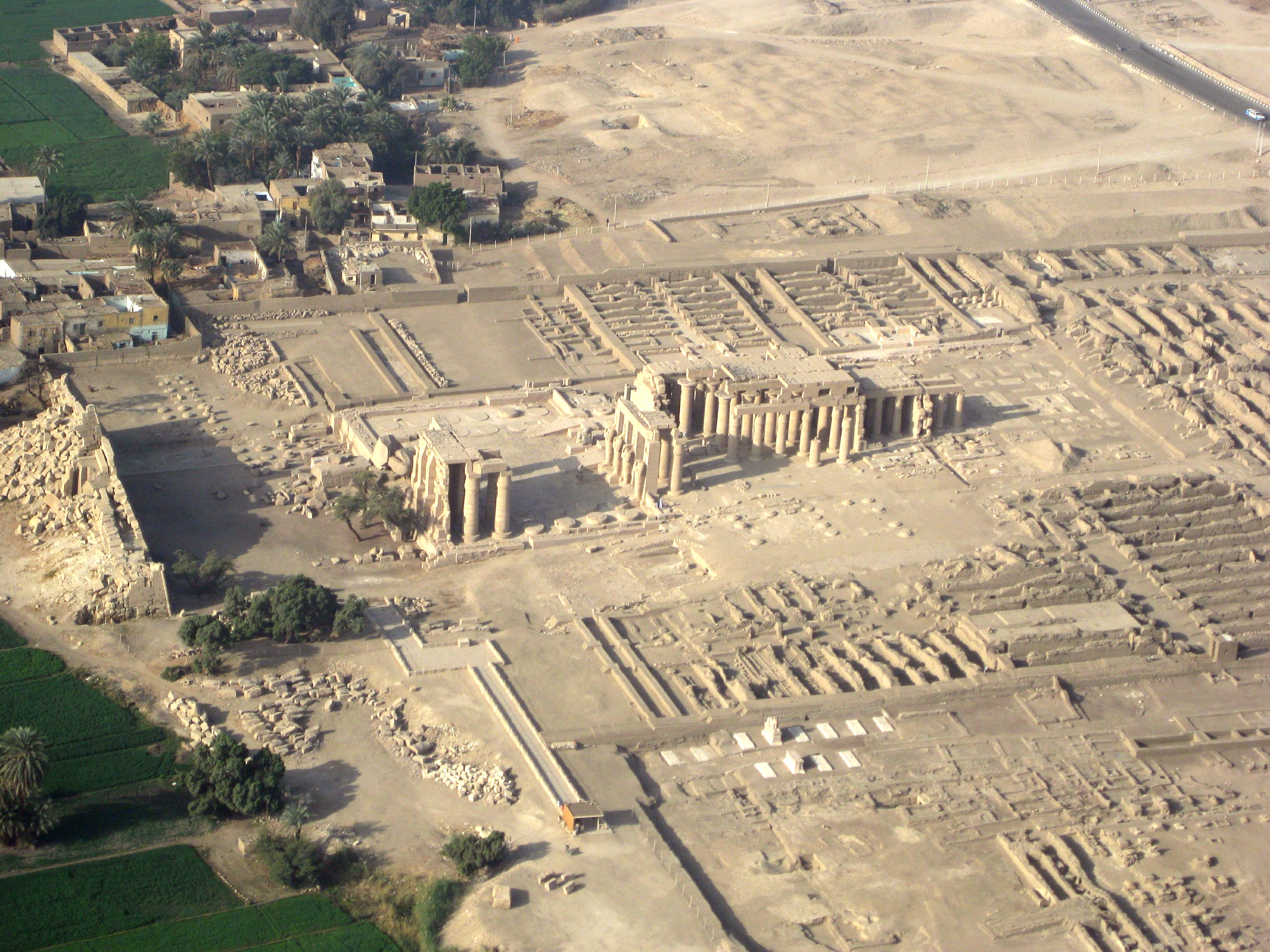 Temple of Rameses II